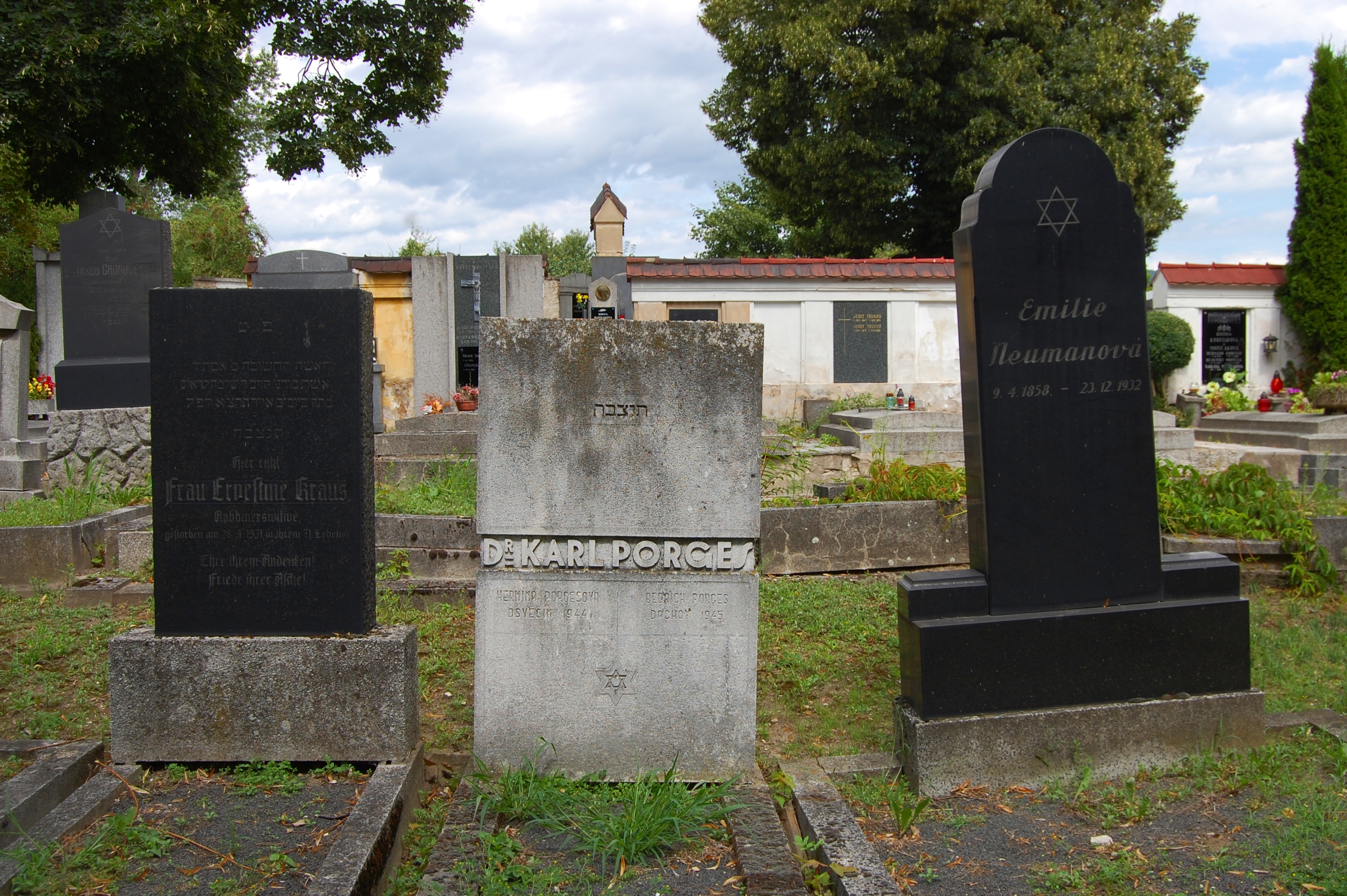 Jewish cemetery in Litoměřice, Czech Republic.